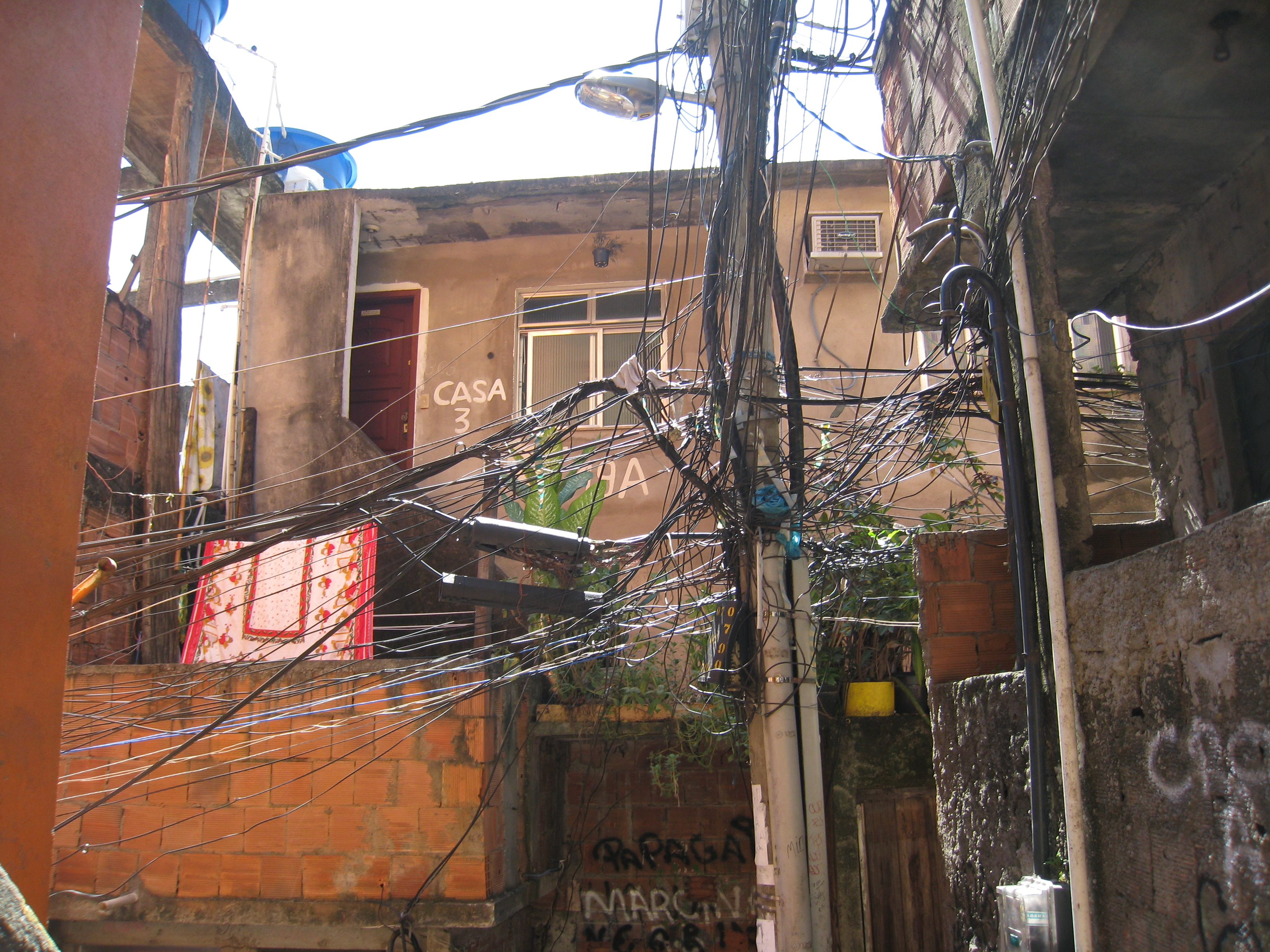 Illegal electricity conection in Rocinha slum, Rio de Janeiro, Brazil